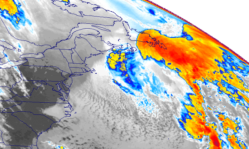 Remnants of Hurricane Grace on October 29, 1991